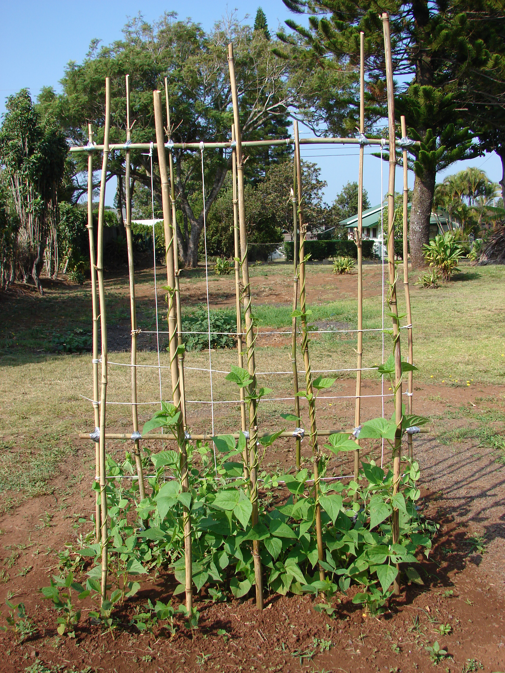 Phaseolus vulgaris (in garden). Location: Maui, Makawao